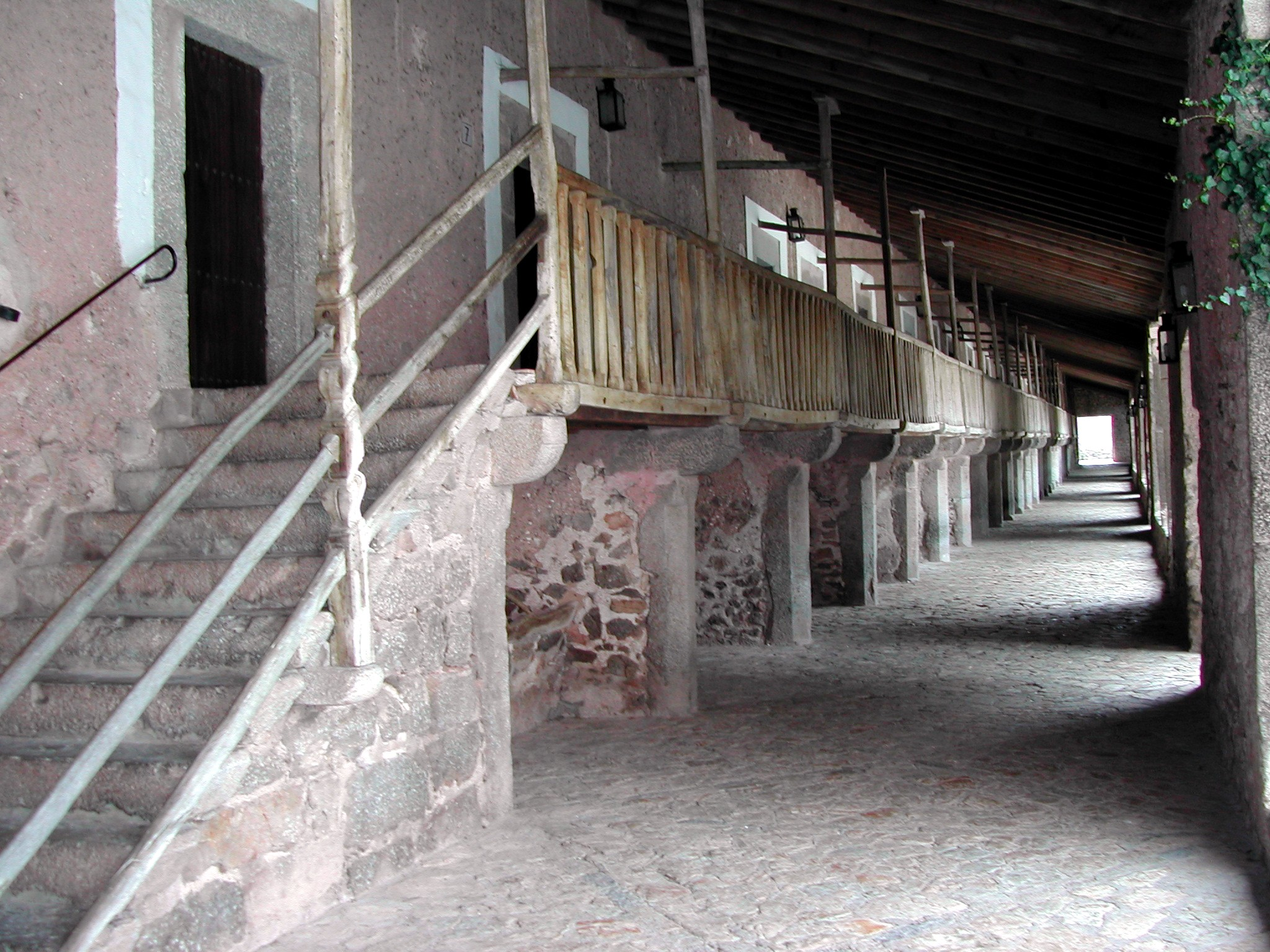 Lluc pilgrins inn